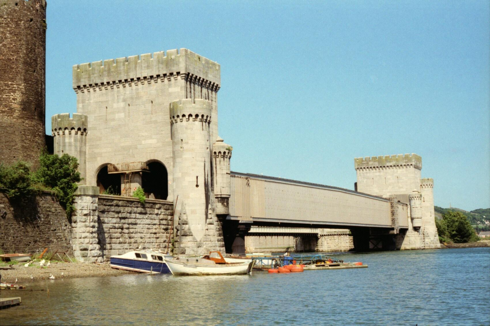 Conway Tubular Bridge